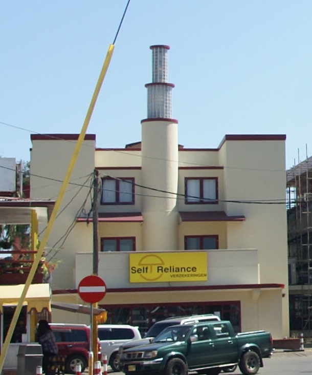 Former cinema Tower, Heerenstraat 50, Paramaribo, Surinam.